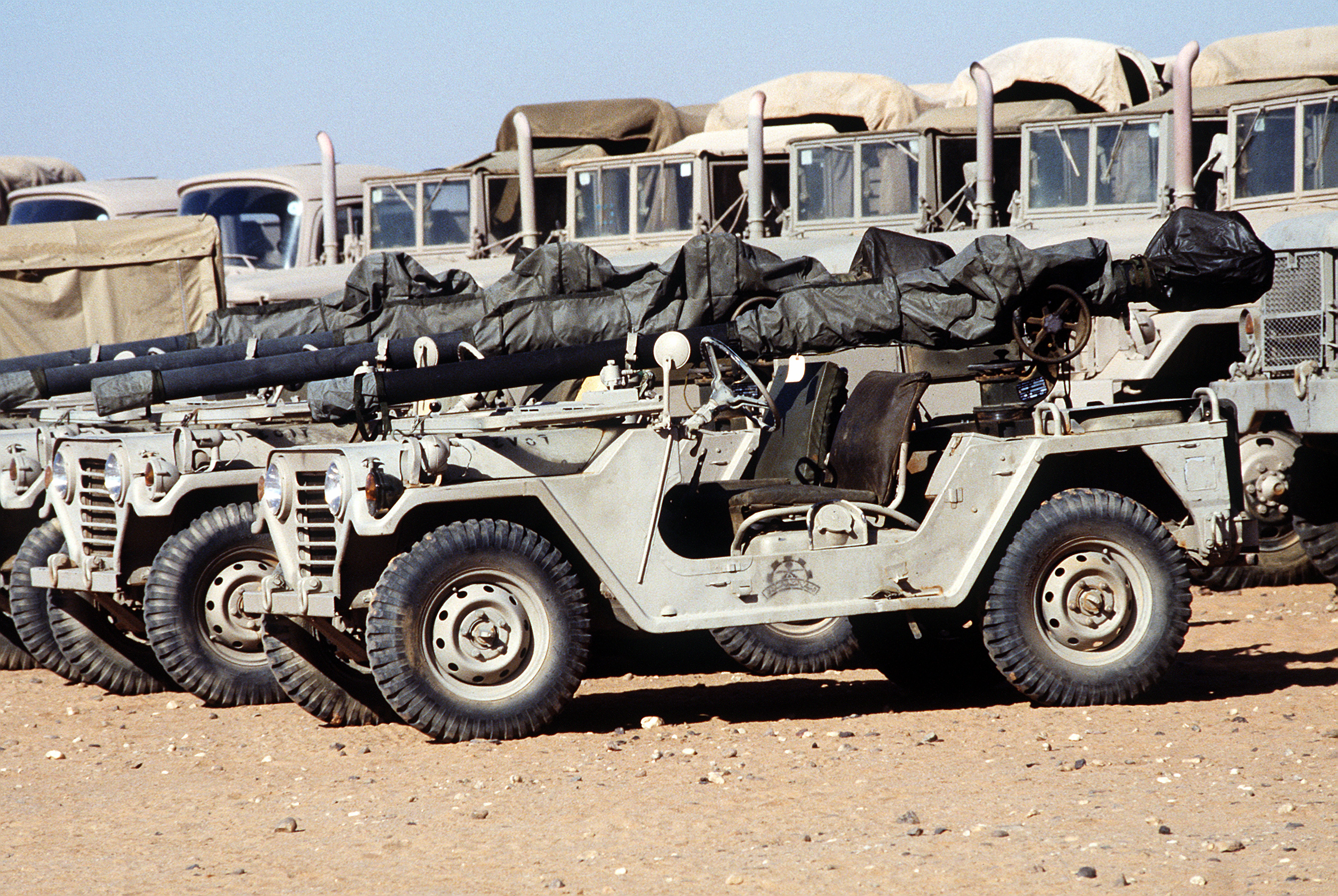 Saudi Arabian M-151A2 light utility vehicles with recoilless rifles stand in a holding area during Operation Desert Shield.